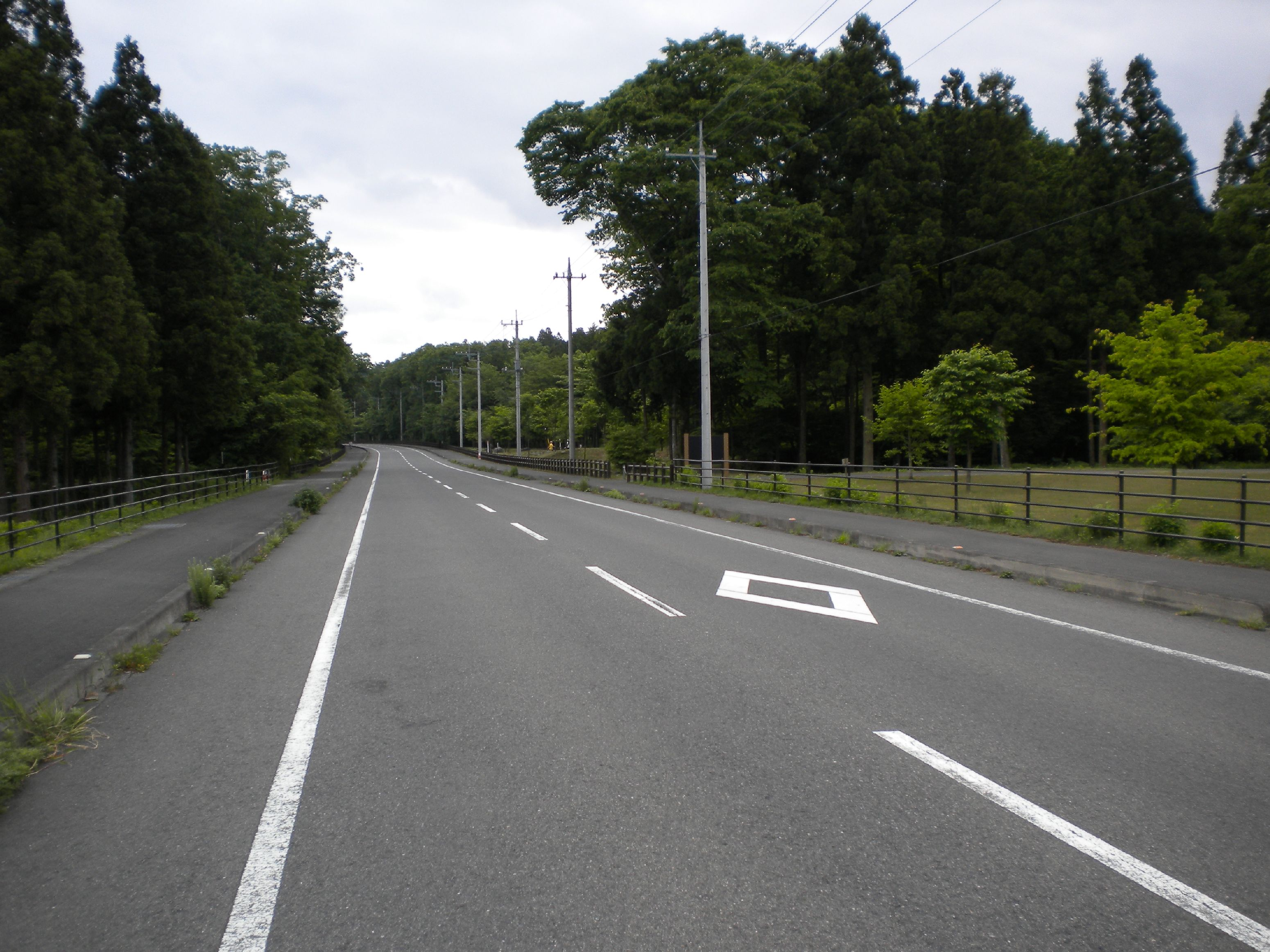 Tochigi prefectural road No.248 on Nikko city